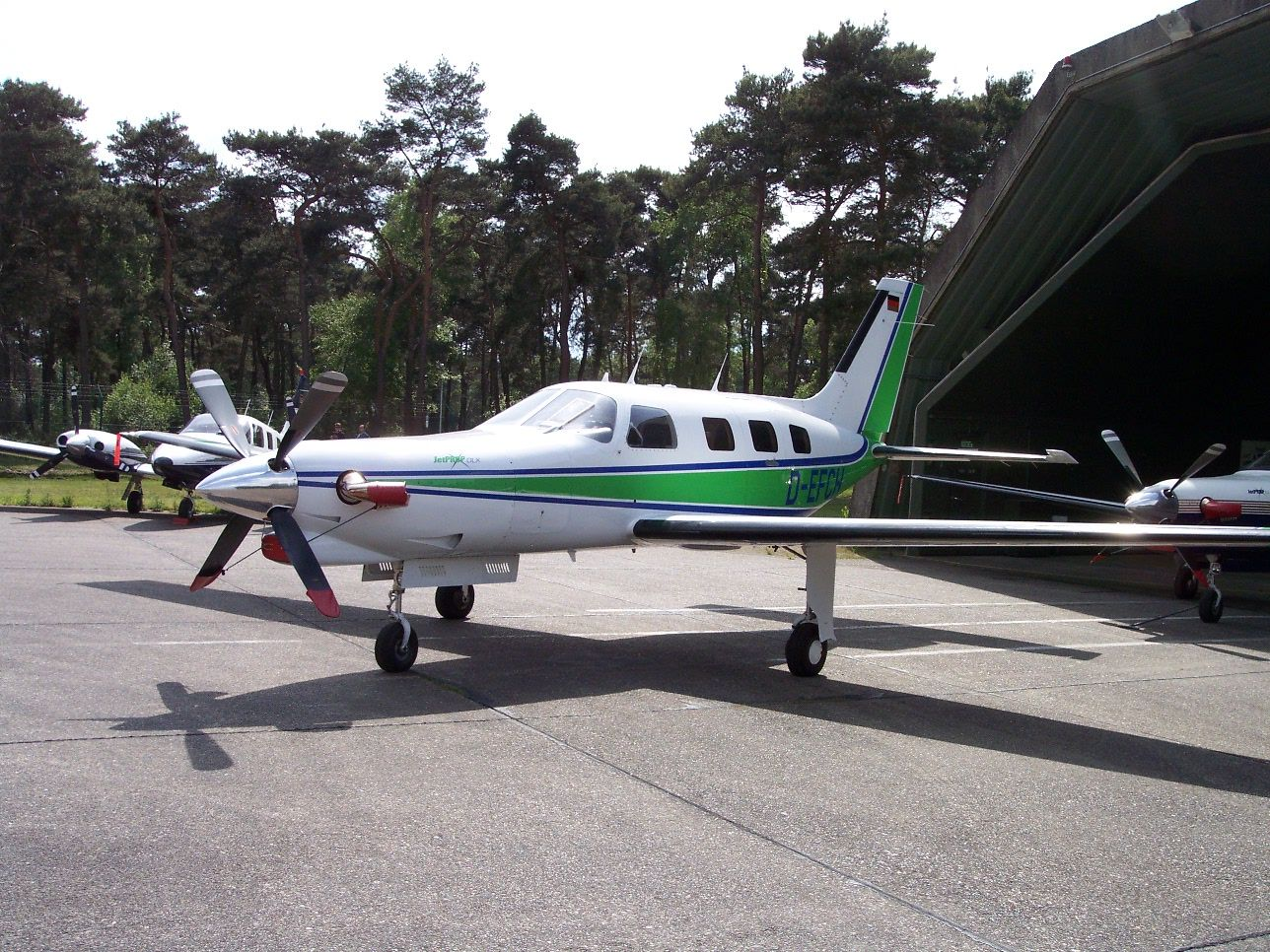 Piper PA46-310P Malibu